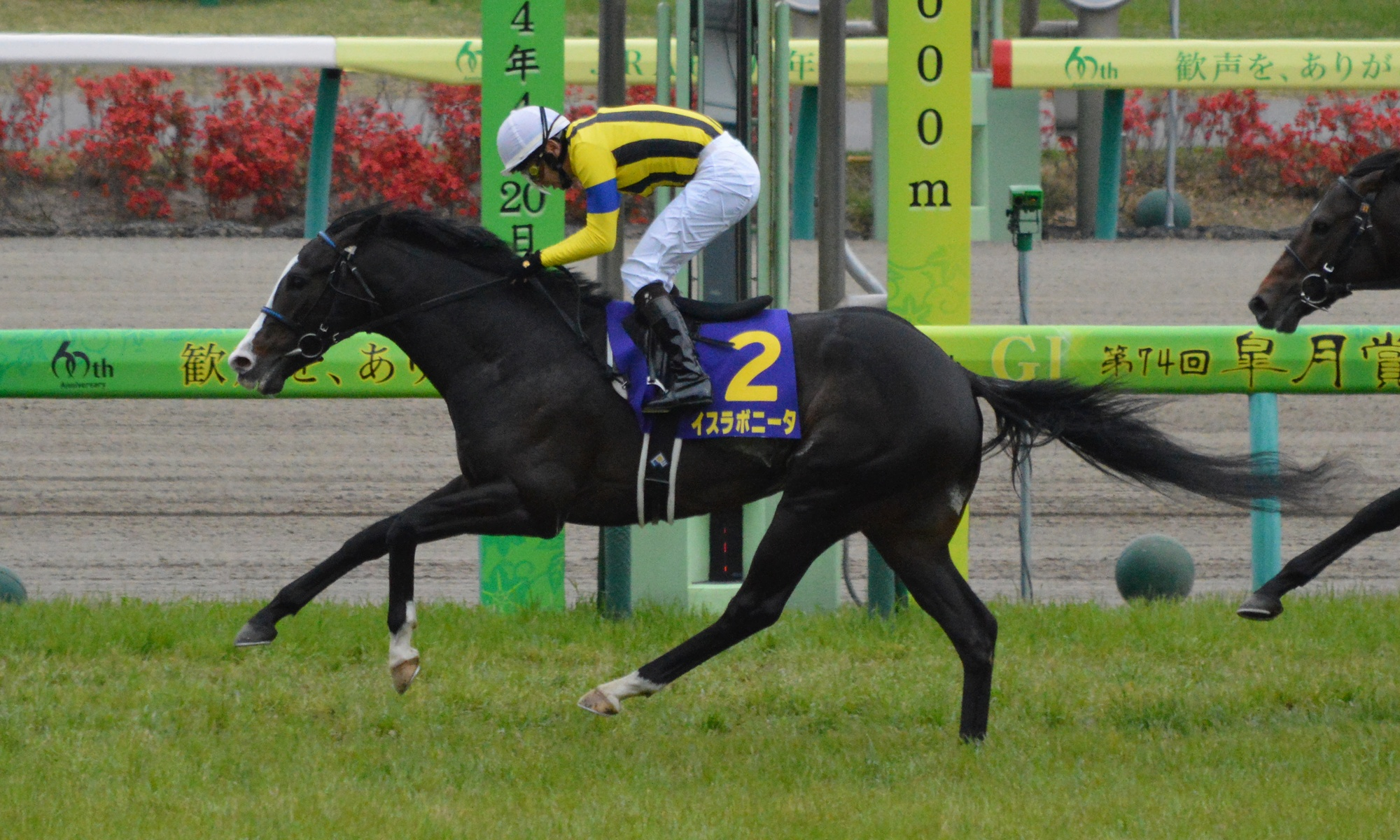 Japanese race horse Isla Bonita at Nakayama racecourse. Nakayama (JPN) 20 Apr 2014 Satsuki Sho (Japanese 2000 Guineas) (Grade 1) (3yo Colts & Fillies) (Turf) 1m2f Firm RankHorse NameOddsAgeWgtTrainerJockey1stIsla Bonita (JPN)41/10C39-0Hironori KuritaMasayoshi Ebina2ndTo The World (JPN)5/2FC39-0Yasutoshi IkeeYuga Kawada3rdWin Full Bloom (JPN)239/10C39-0Hiroshi MiyamotoDaichi Shibata4th-18th/omission